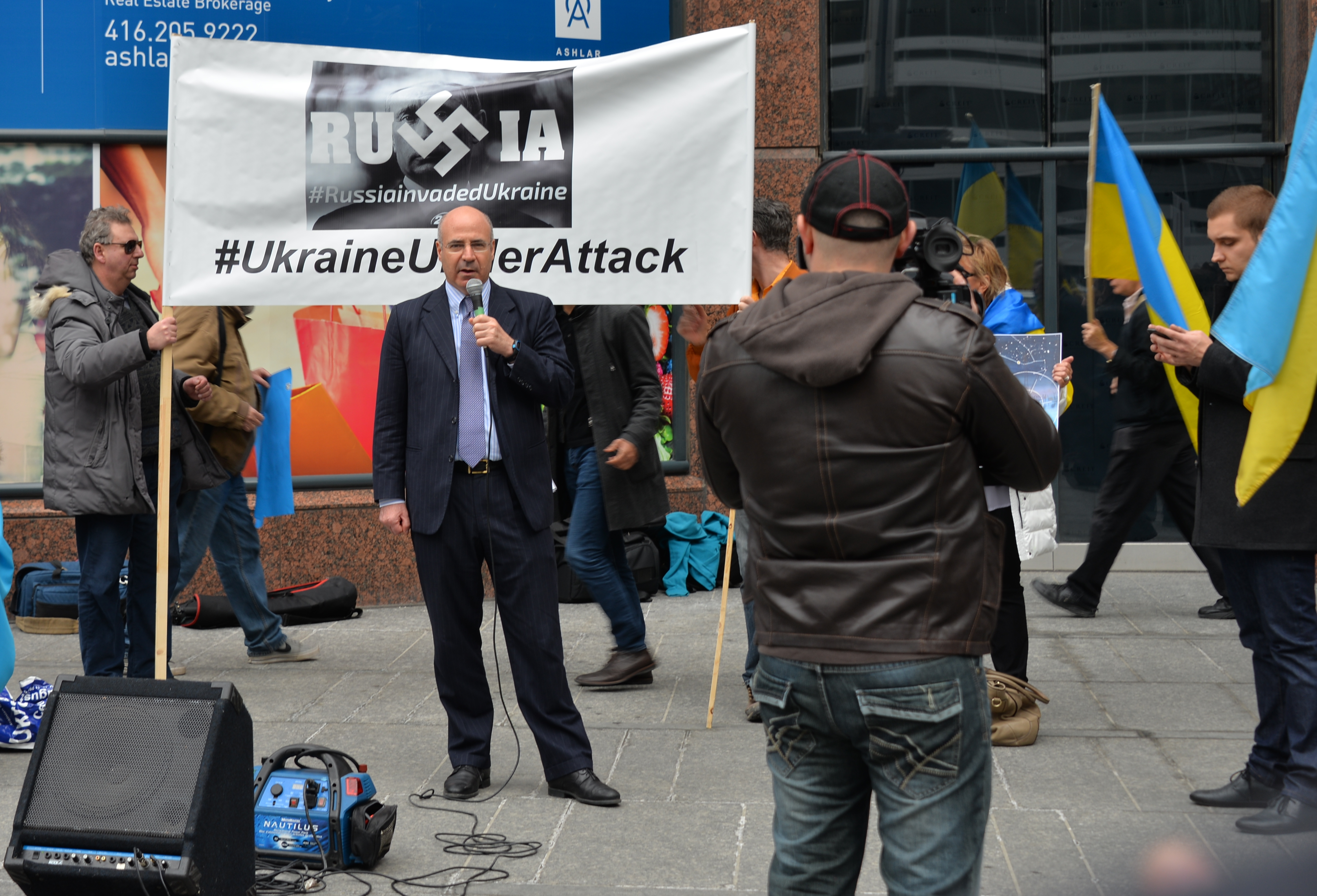 American economist and civic activist Bill Browder speaks to the protesters against the Putin aggression on Ukraine and Human Rights violation by Russia in front of the Russian Consulate in Toronto 08.03.2016